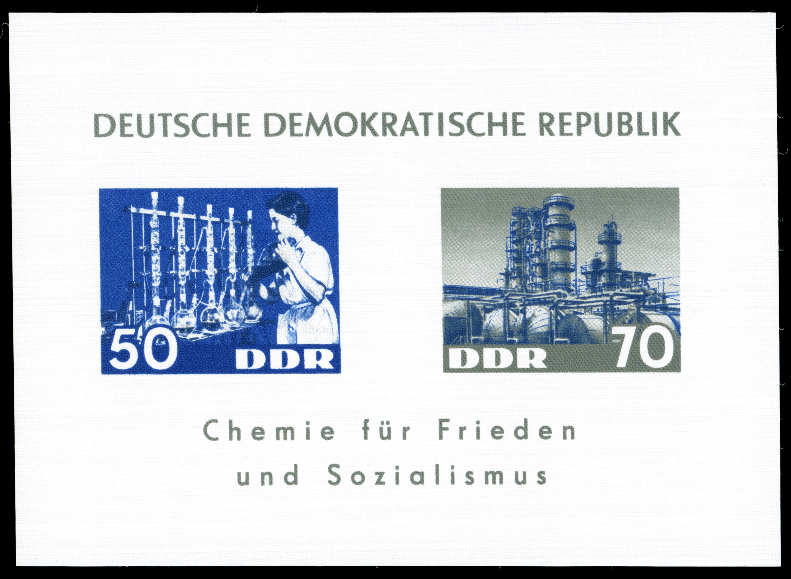 Ausgabepreis: 120 Pfennig First Day of Issue / Erstausgabetag: 12. März 1963 Auflage: 1.100.000 Entwurf: Deutsche Wertpapierdruckerei Druckverfahren: Offsetdruck Michel-Katalog-Nr: Ländercode-MiNr: Block 18 Licensing This file is most likely NOT in the public domain. It has been marked for review, and will be deleted in due course if the review does not find it to be in the public domain.This file was previously considered to be in the public domain as a German stamp; it is possible that it is in the public domain for other reasons, in which case a new rationale will be applied as part of the review process. See below for the previous rationale. Previous public domain rationale, no longer applicable This stamp is in the public domain in Germany because it was released by the postal administration of the German Democratic Republic or the Soviet occupation zone (Deutschen Post der DDR) whose legal successor is the Federal Republic of Germany. Thus it is an official work according to German copyright law (§ 5 Abs. 1 UrhG).